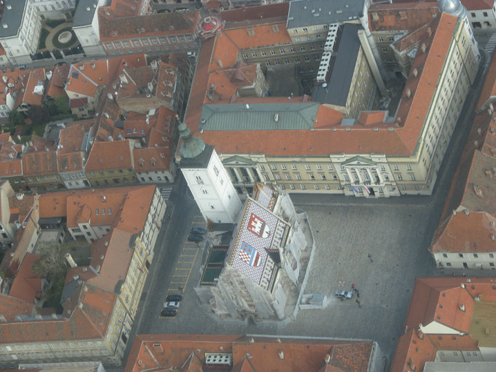 St. Marks square in Zagreb, Croatia